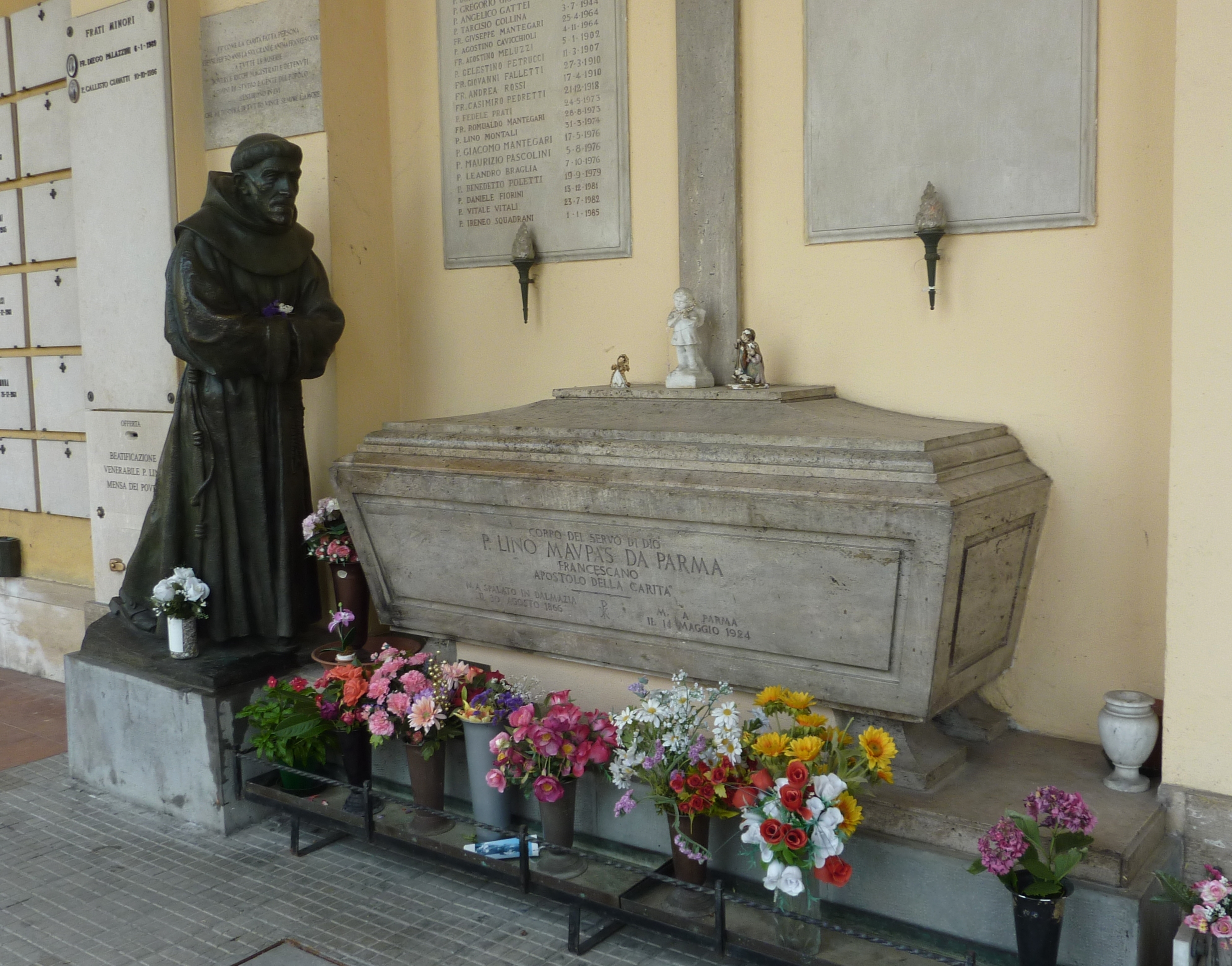 Padre Lino da Maupas burial place in the Villetta cemetery of Parma, Italy.